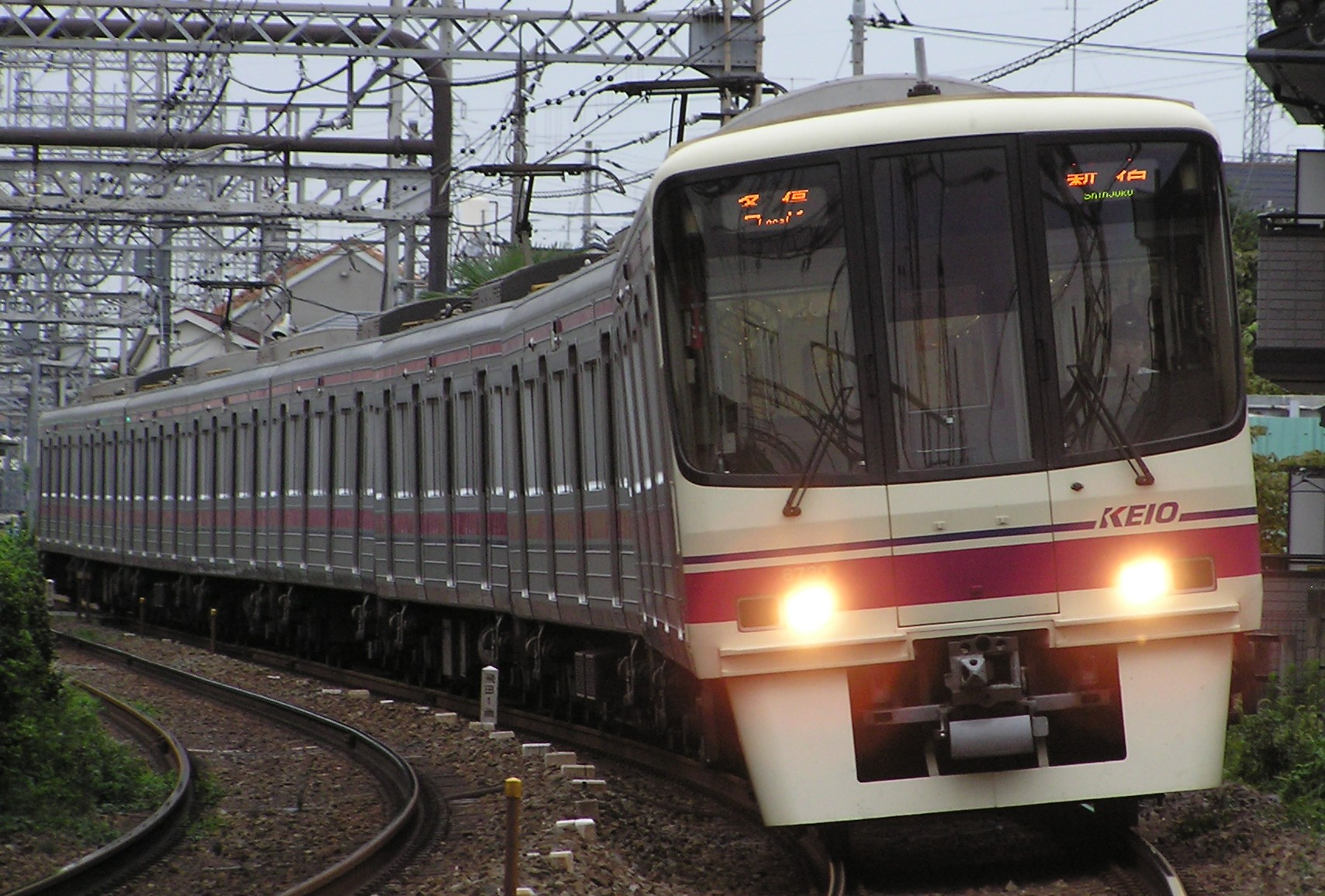 撮影地 Place of photo飛田給～武蔵野台撮影の状況 How to take公道から撮影 At public roadトリミングの有無 Cropped or notトリミング済み Cropped内容 Description京王8000系F Keiō 8000 series